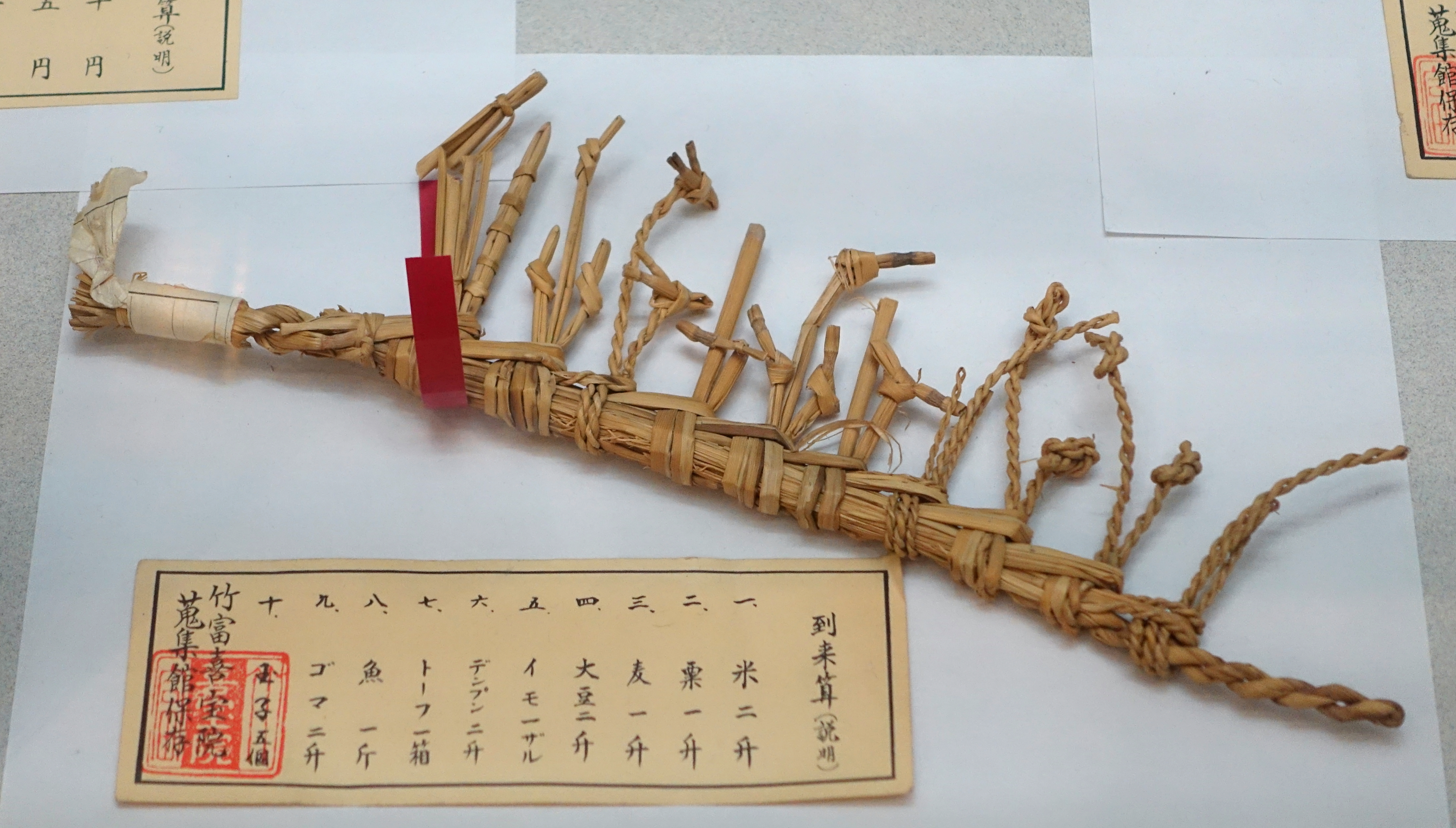 Exhibit in the Ridai Museum of Modern Science, Tokyo University of Science, Kagurazaka campus - 1-3 Kagurazaka, Shinjuku-ku, Tokyo.